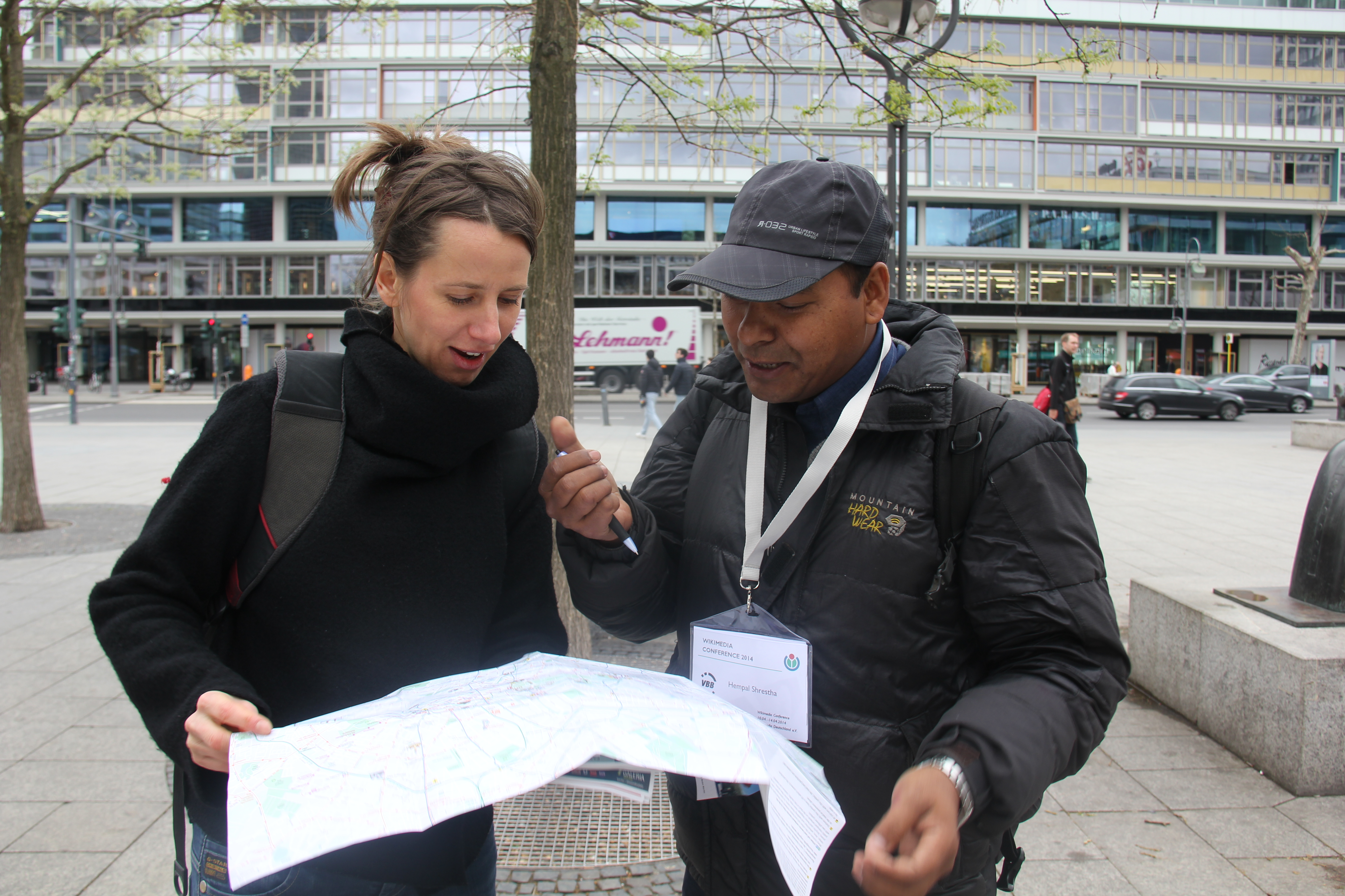 Guided city tour to Berlin during Wikimedia Conference 2014.